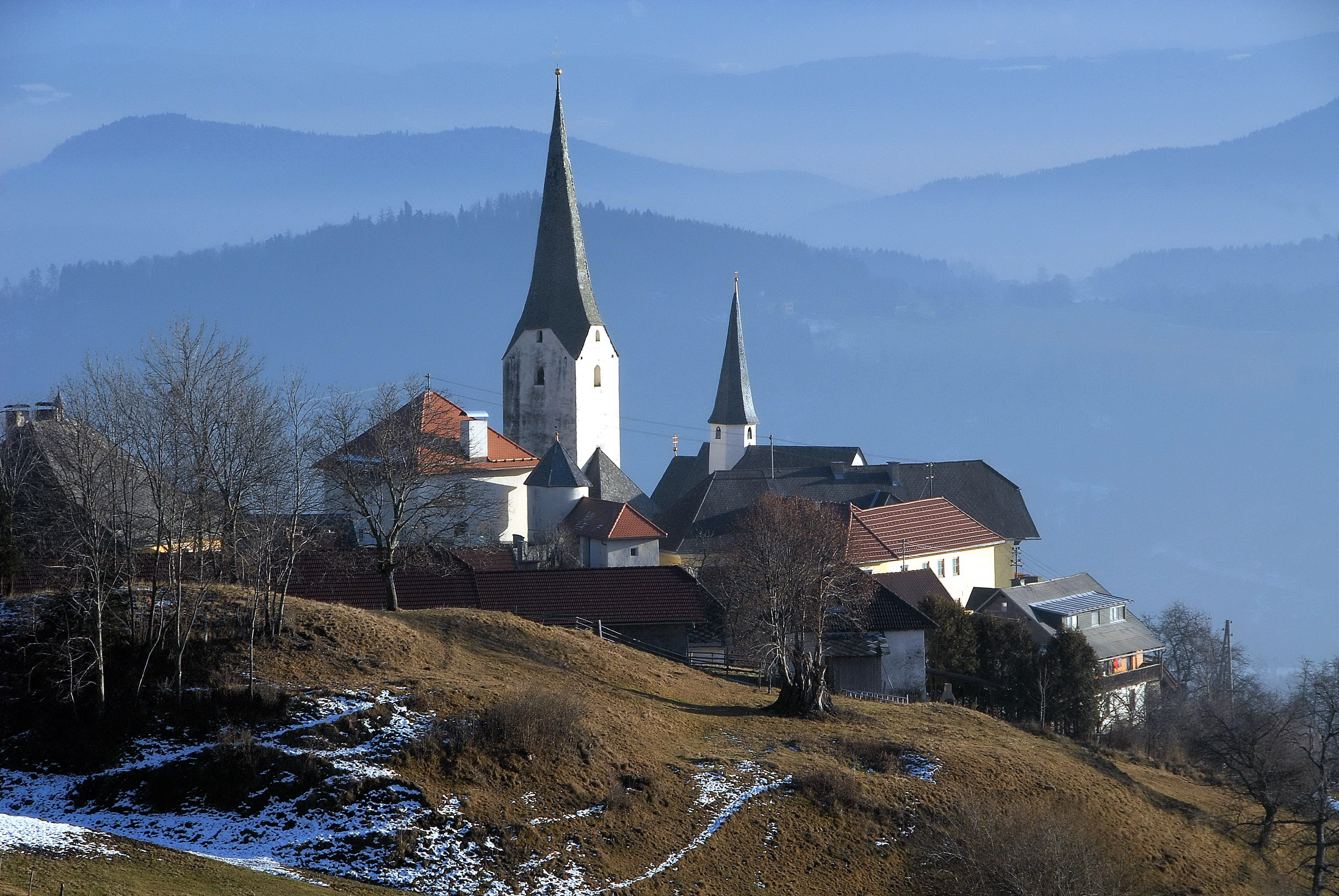 Northwestern view of the village with parish church Saint Martin in Sörg #12, market town Liebenfels, district Sankt Veit, Carinthia, Austria, EU